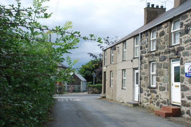 Cartref Myrddin Fardd yng Nglanywern - Myrddin Fardd's home Glanywern Terrace see 496132 Myrddin's house was number three, the house on the right of the photo